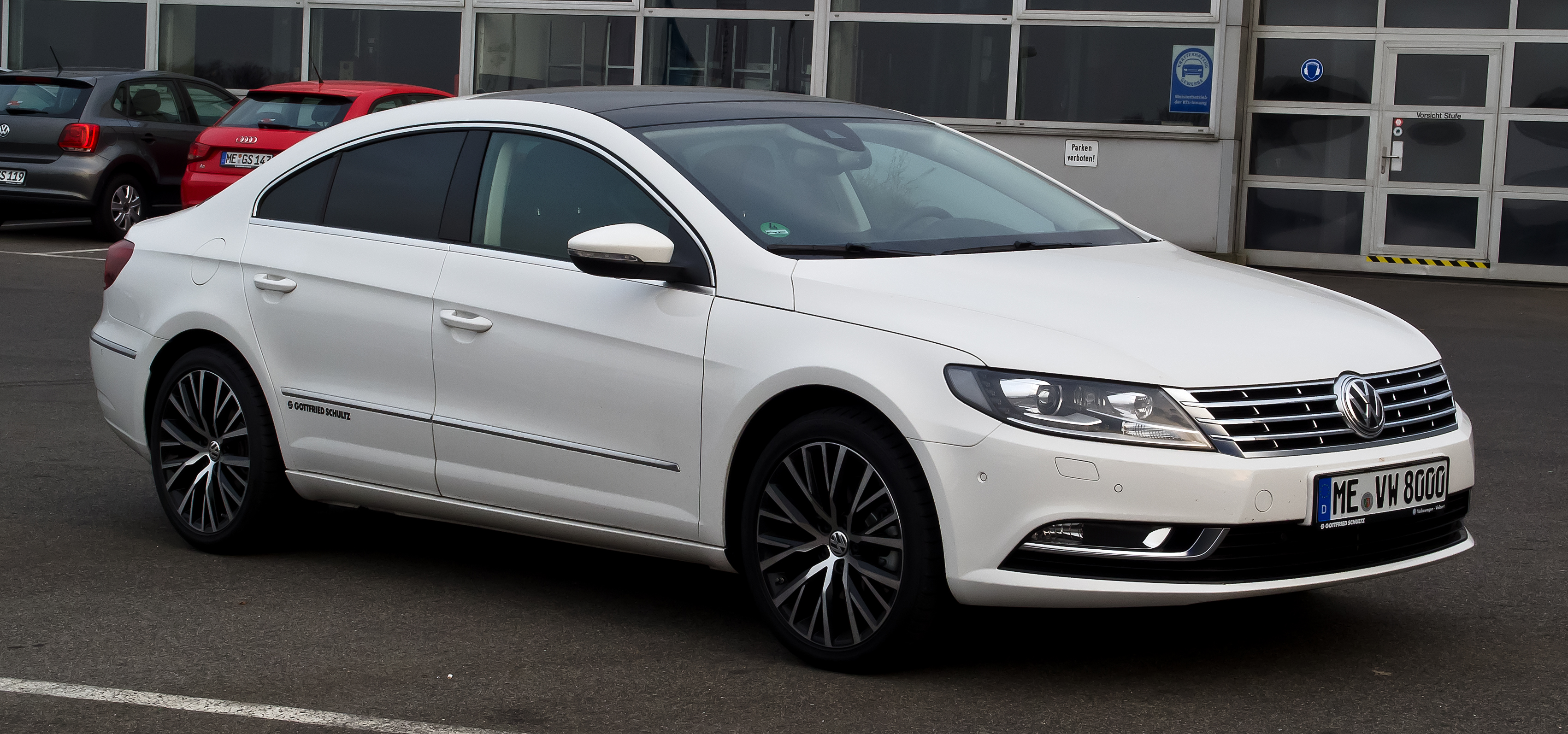 VW CC 2.0 TDI BlueMotion Technology (Facelift)